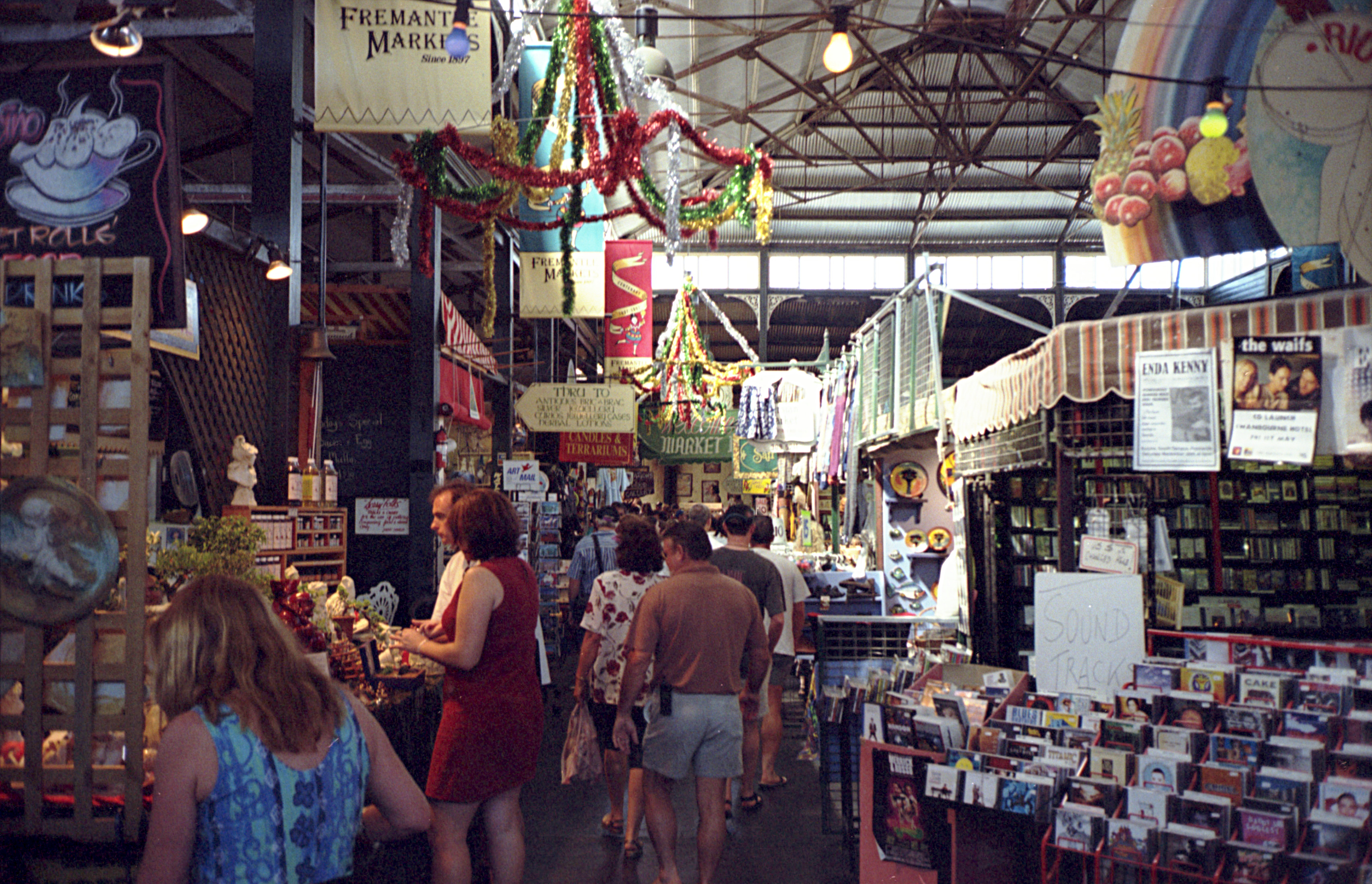 Fremantle Markets, Fremantle, Western Australia.